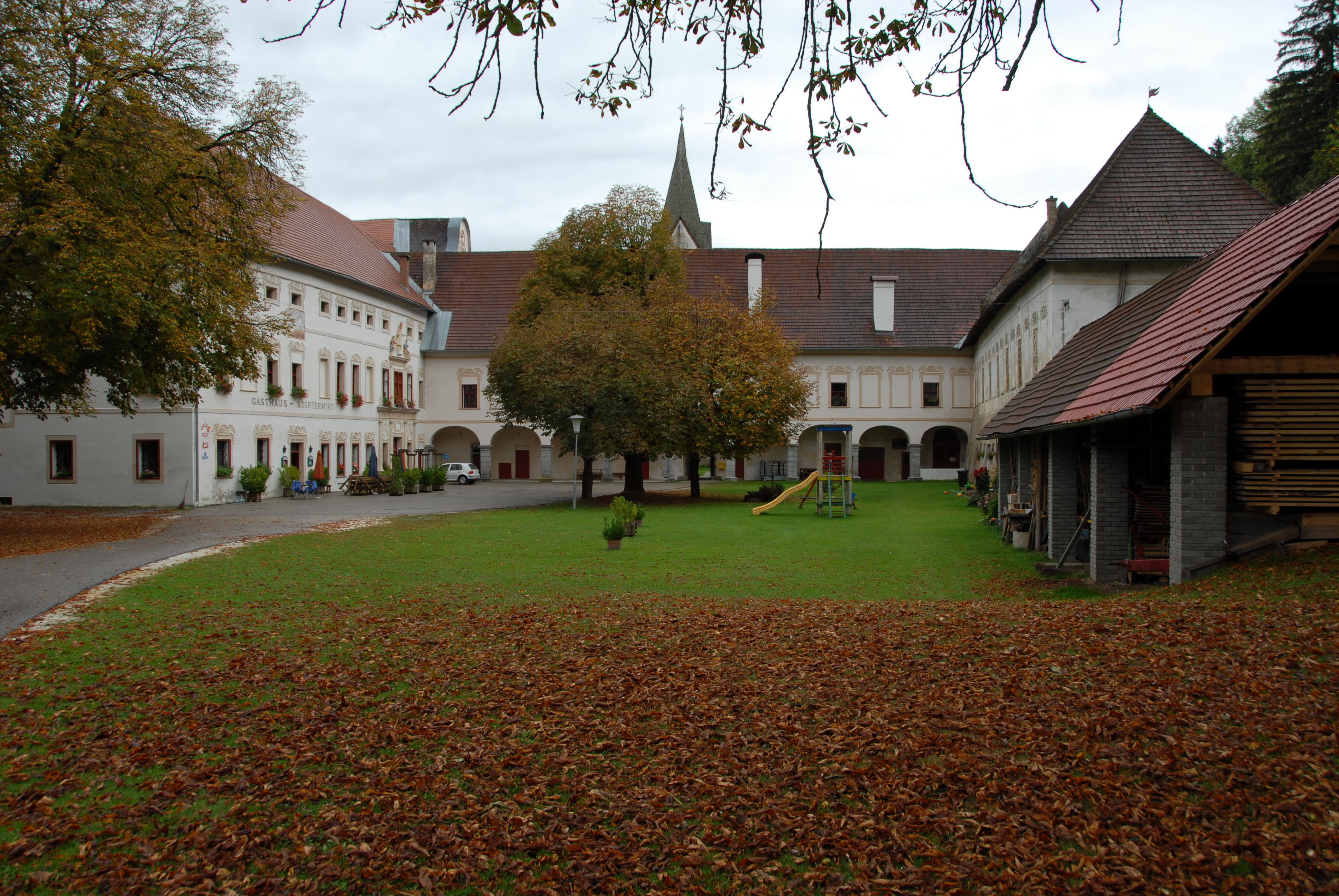 Premonstratensian monastery, market town Griffen, district Völkermarkt, Carinthia, Austria, EU